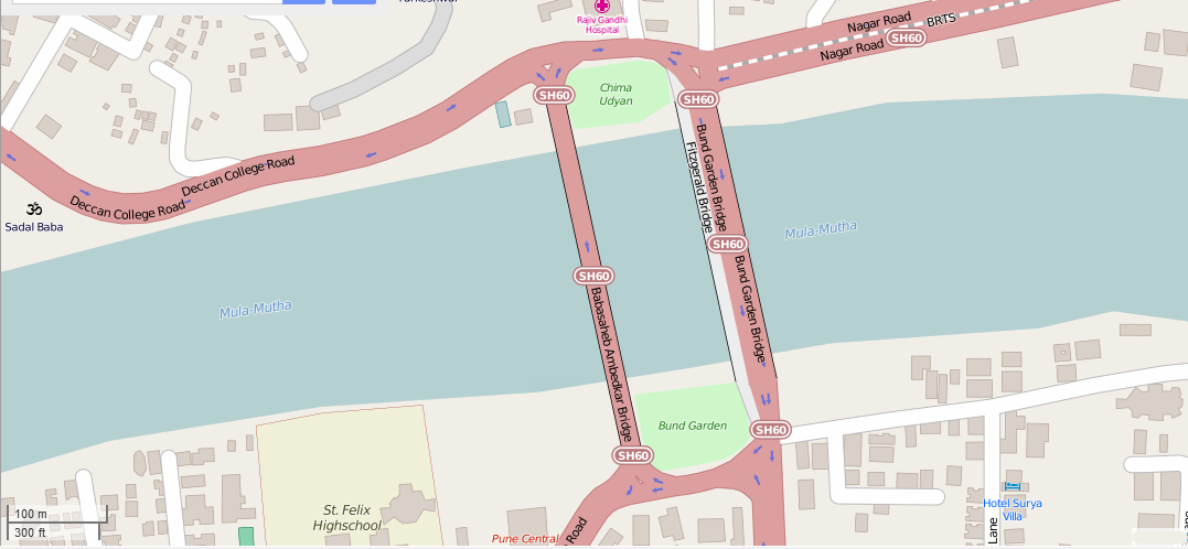 Open Street Map of the Bund Garden Bridge in Pune, India.